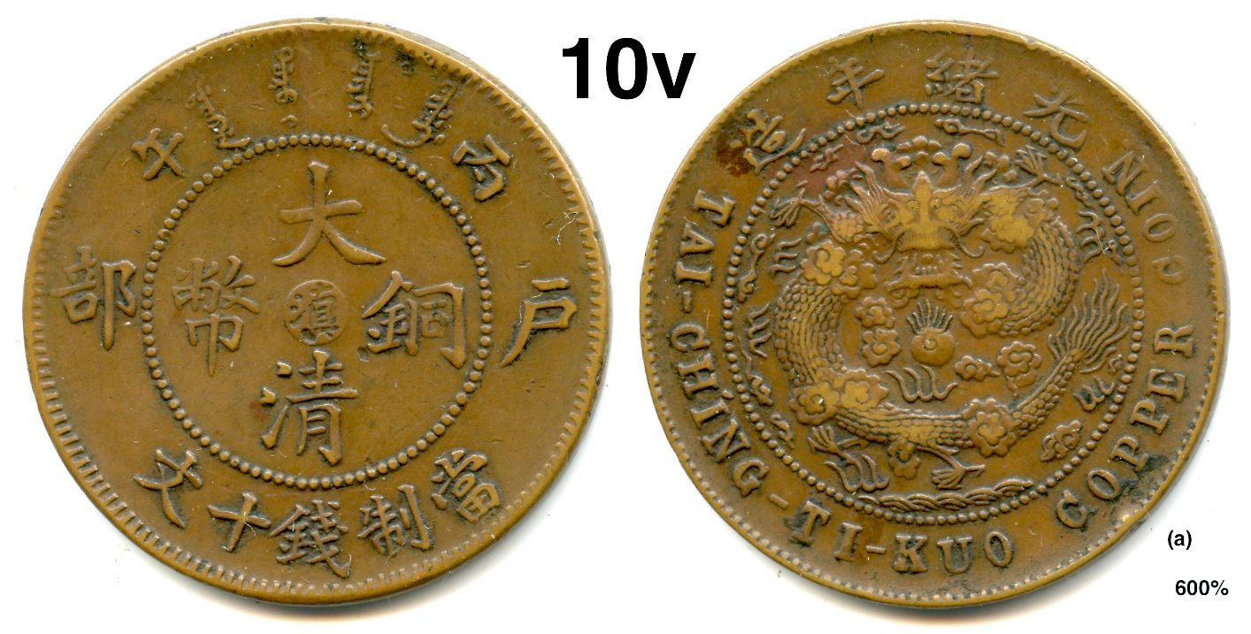 云南 YUNNAN 雲南 PHOTO Y# DESCRIPTION PRICE 10v.0 10 Cash, CD1906, Kuang-hsu, TCTK, Dragon, Tien mintmark, Variety: Small waves below dragon CCC569, W1324 VF+ $35.00 S 257.0 50 Cents, ND (1911-15), Kuang-hsu, Dragon, No Legends rev., Variety: Two circles below pearl. Many subvarieties exist. LM422 AU toned $45.00 DM 257.1a 50 Cents, ND (1911-15), Kuang-hsu, Dragon, No Legends rev., Variety: Three circles with dots below pearl. Many subvarieties exist. LM422 VF $22.50 DC 257.1b 50 Cents, ND (1911-15), Kuang-hsu, Dragon, No Legends rev., Variety: Three circles without dots below pearl. Many subvarieties exist. LM422 VF $19.50 DC 257.2 50 Cents, ND (1920-31), Kuang-hsu, Dragon, No Legends rev., Variety: Four circles without dots below pearl. Many subvarieties exist. Low fineness. LM422 EF+ $25.00 DM 257.4 50 Cents, ND (1949), Kuang-hsu, Dragon, No Legends rev., Variety: Two circles with dots below pearl. Low fineness restrike. Ugly but scarce. weak $40.00 DC 257.5 50 Cents, ND (1949), Kuang-hsu, Dragon, No Legends rev., Variety: Four circles without dots below pearl (as 257.2 but low fineness). Low fineness restrike. Ugly but scarce. scratches $40.00 DC.